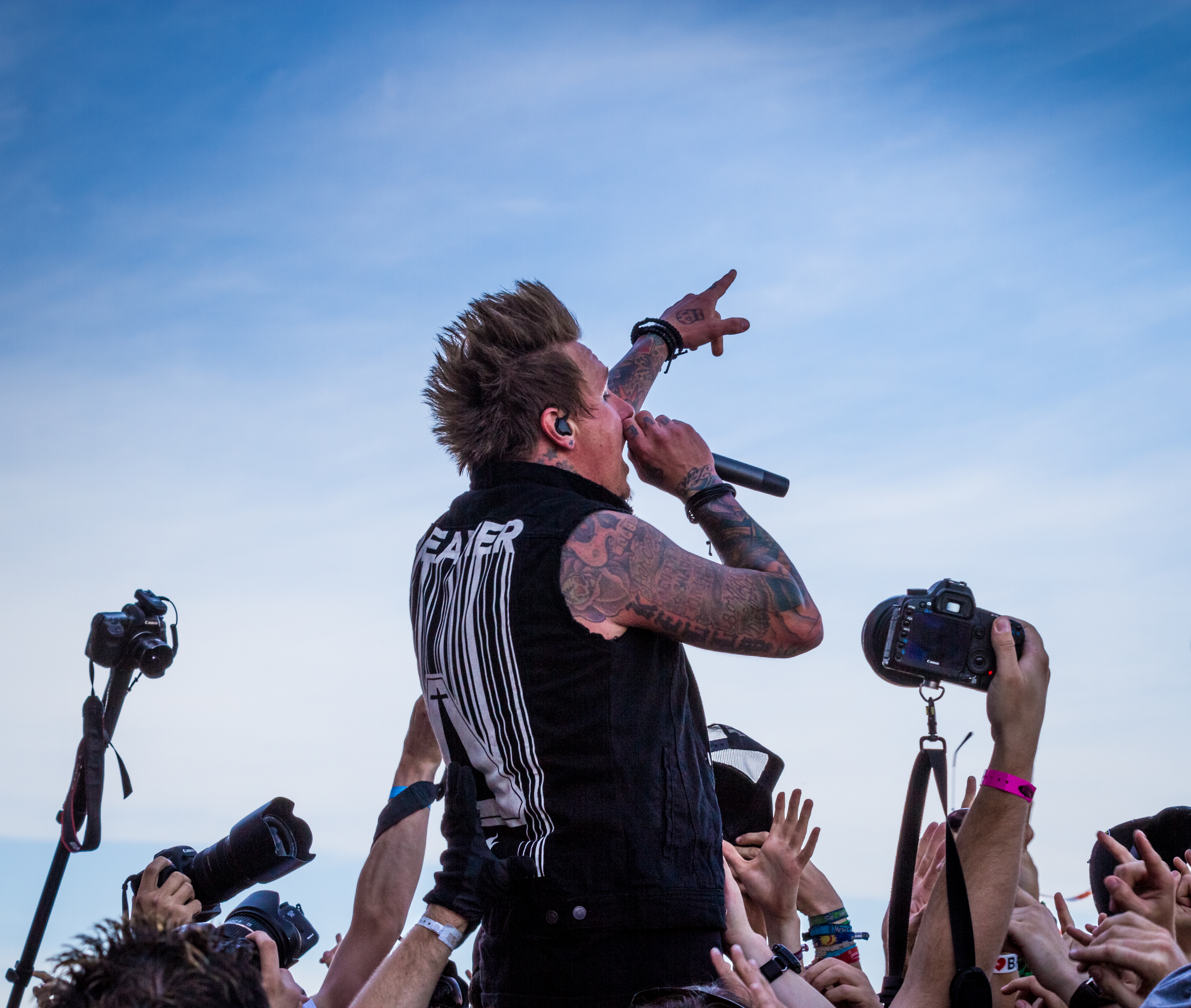 Papa Roach - Rock am Ring 2015